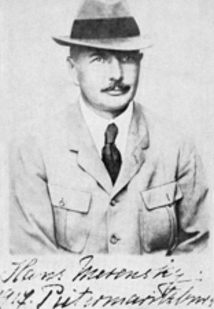 Hans Merensky in Pietermaritzburg, South Africa